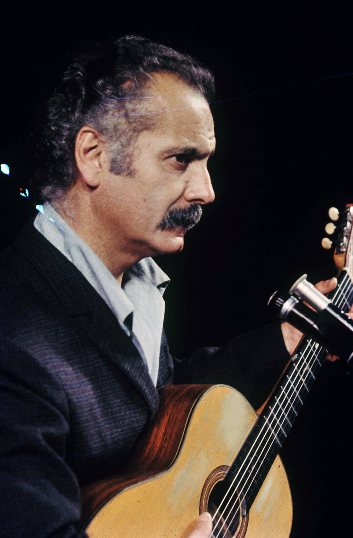 Georges Brassens in concert at the Théâtre national populaire, September-October 1966.